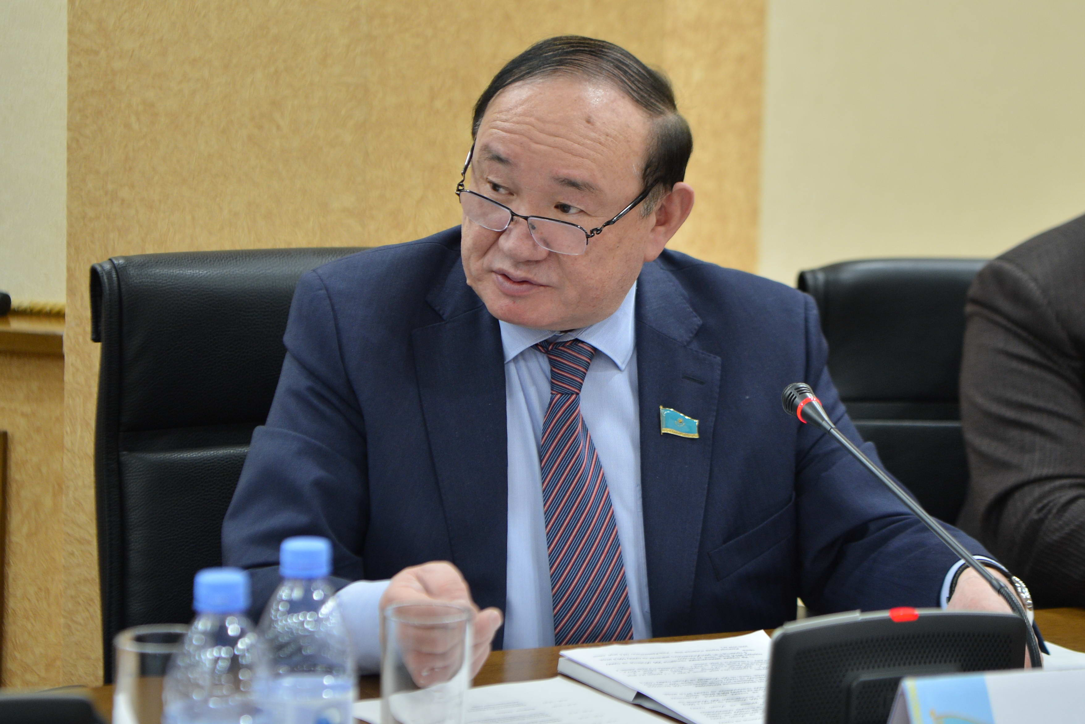 Ali Bektayev